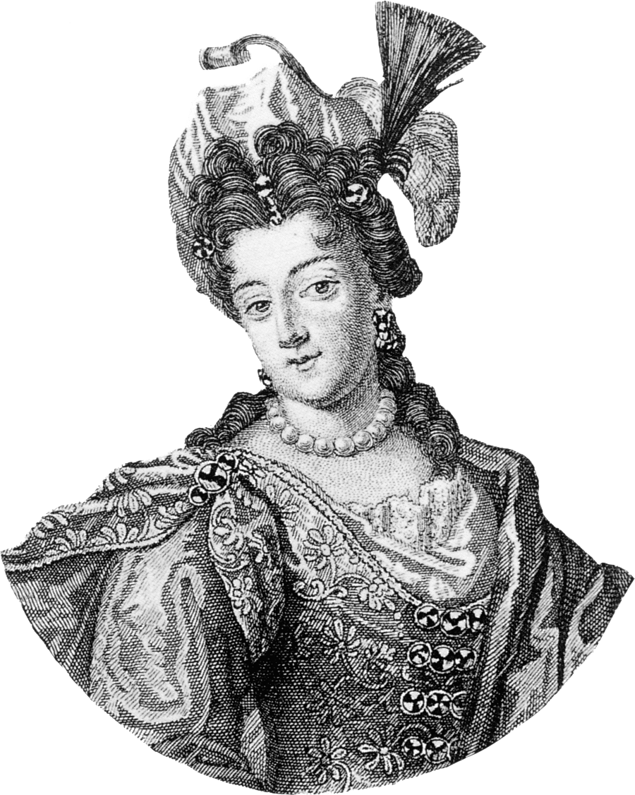 Madeleine de Scudéry, anonymous 18th century engraving after a 1650s painting